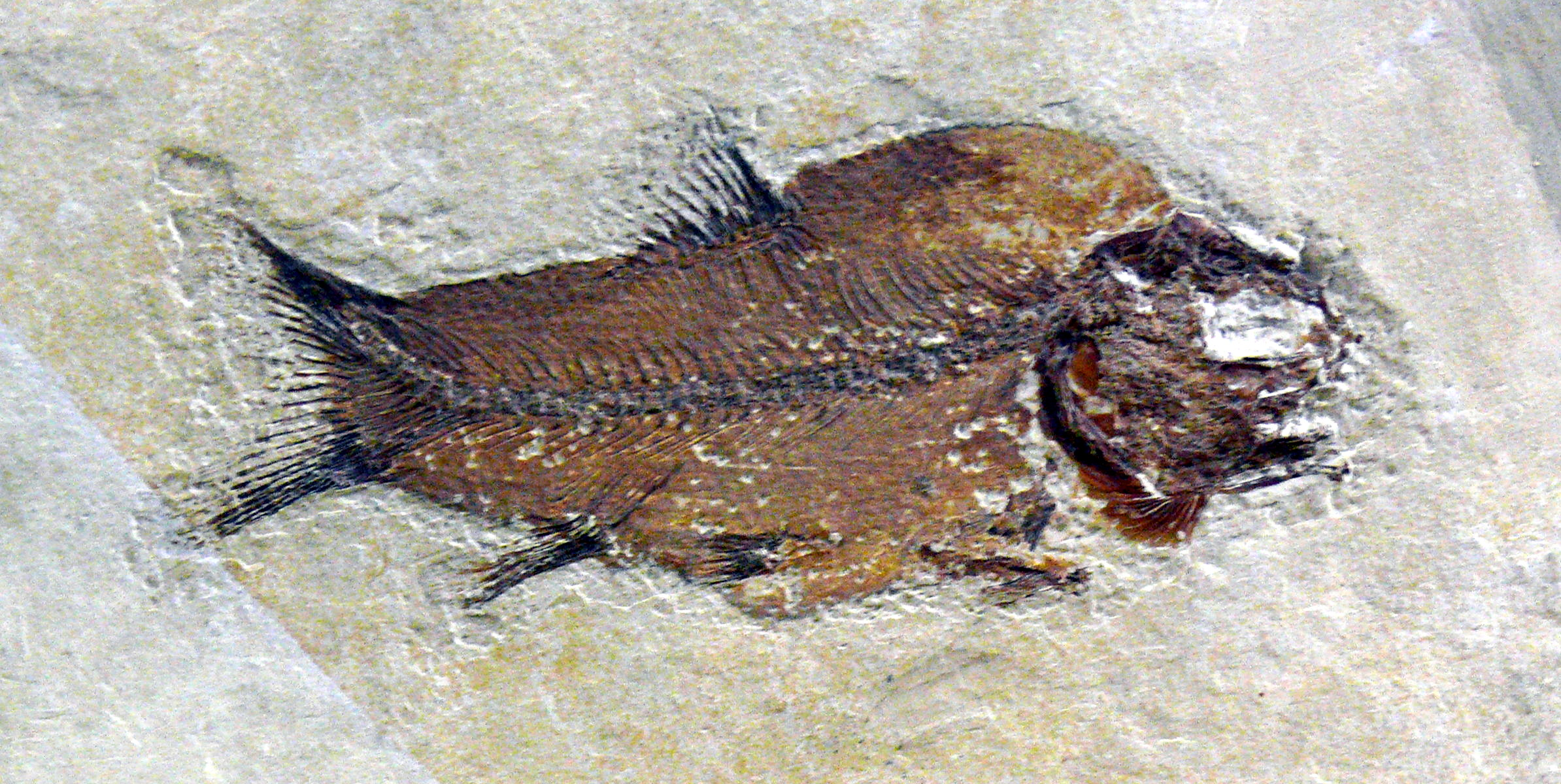 Ionoscopus analibrevis STÜTZER, from Solnhofen, Upper Jurassic